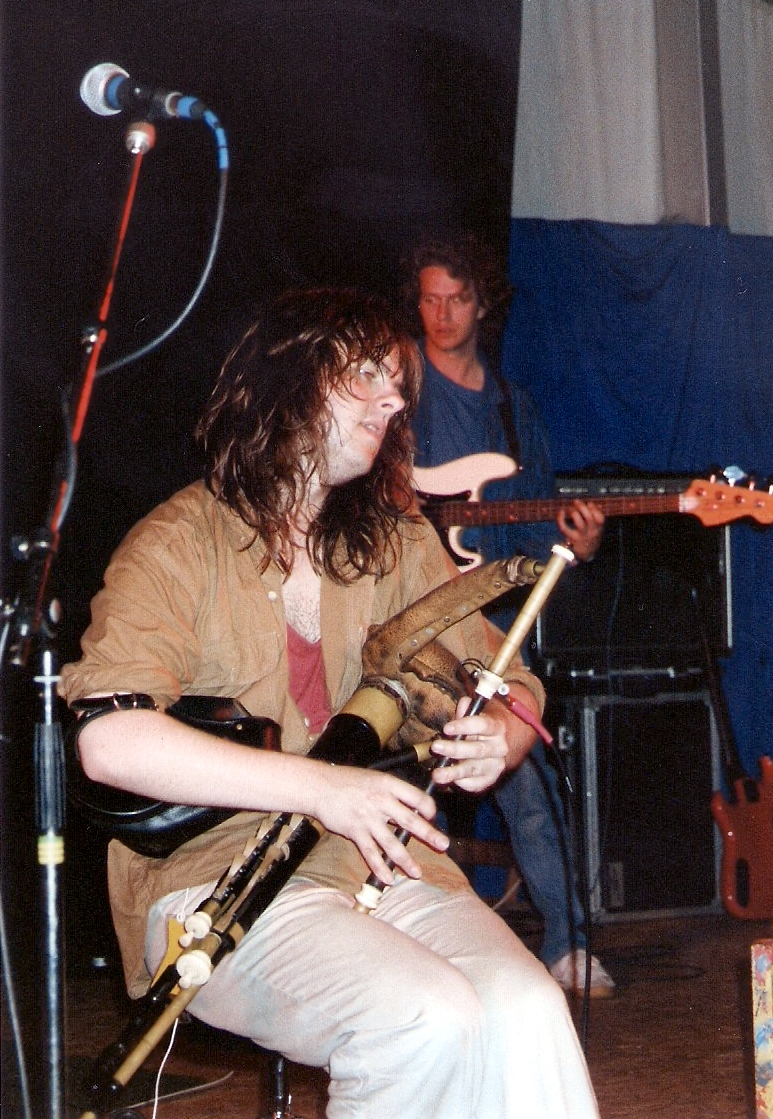 Troy Donockley plays Uillean pipes with You Slosh in 1991